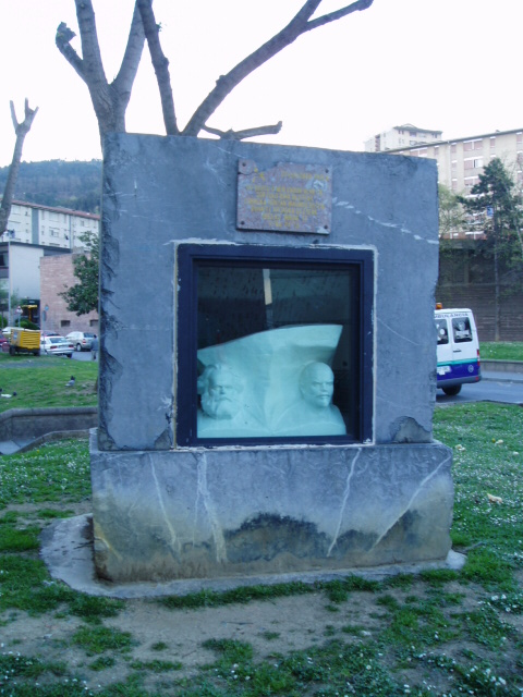 Karl Marx and Vladimir Lenin monument in Otxarkoaga district (Bilbao).